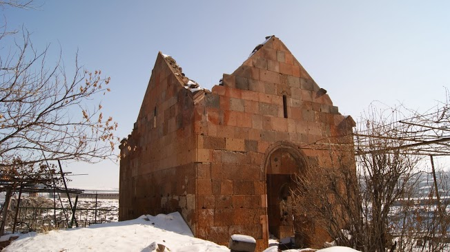 Spitakavor church in Ashtarak. 1/16